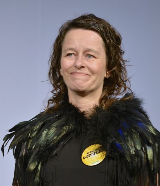 Nominated for the August Prize 2014.